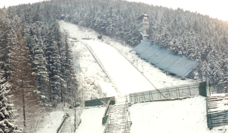 Wielka Krokiew before a renovation